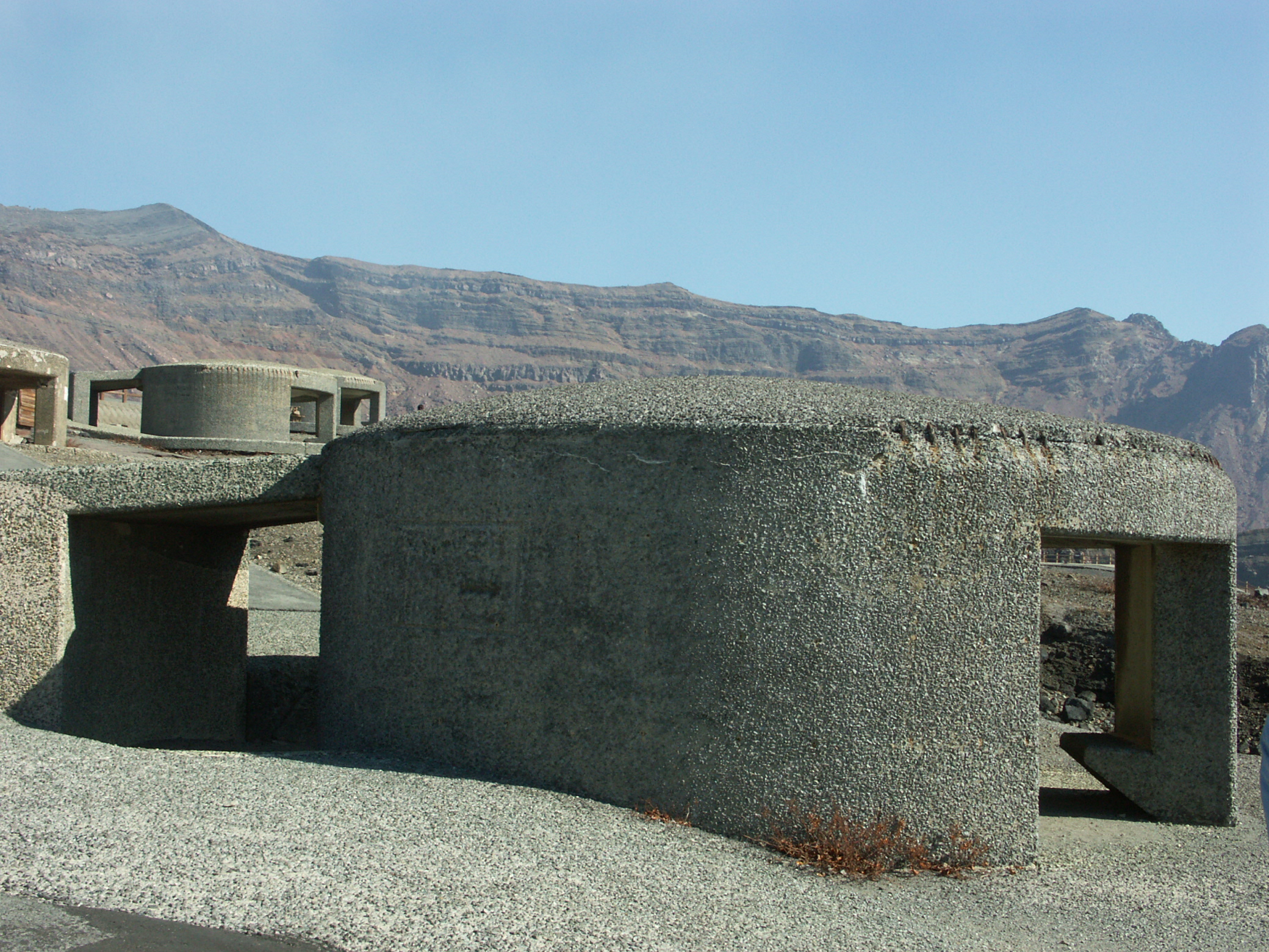 Shelters in Mount Aso.